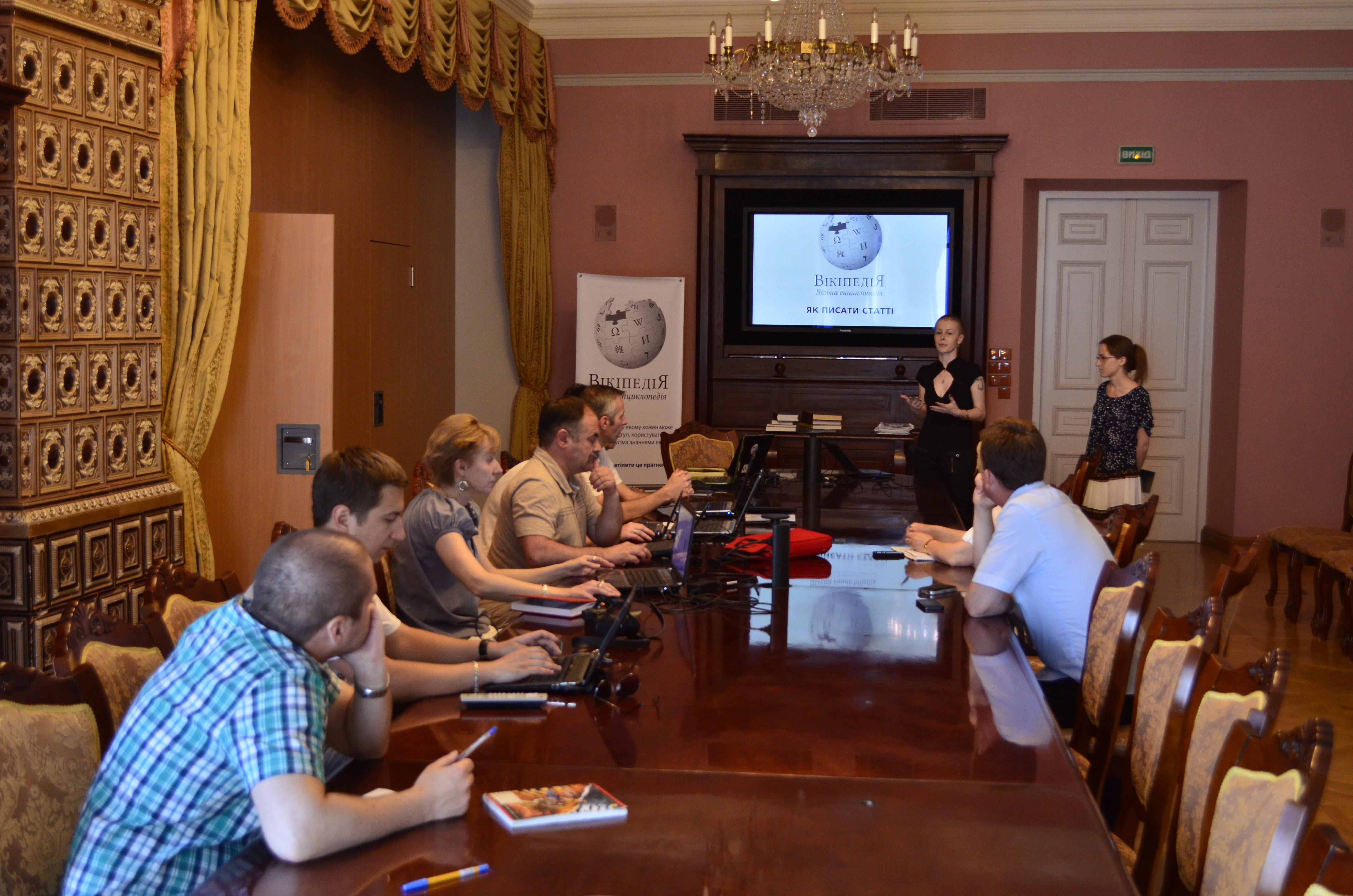 Wikitraining in Saint Sophia Cathedral in Kiev